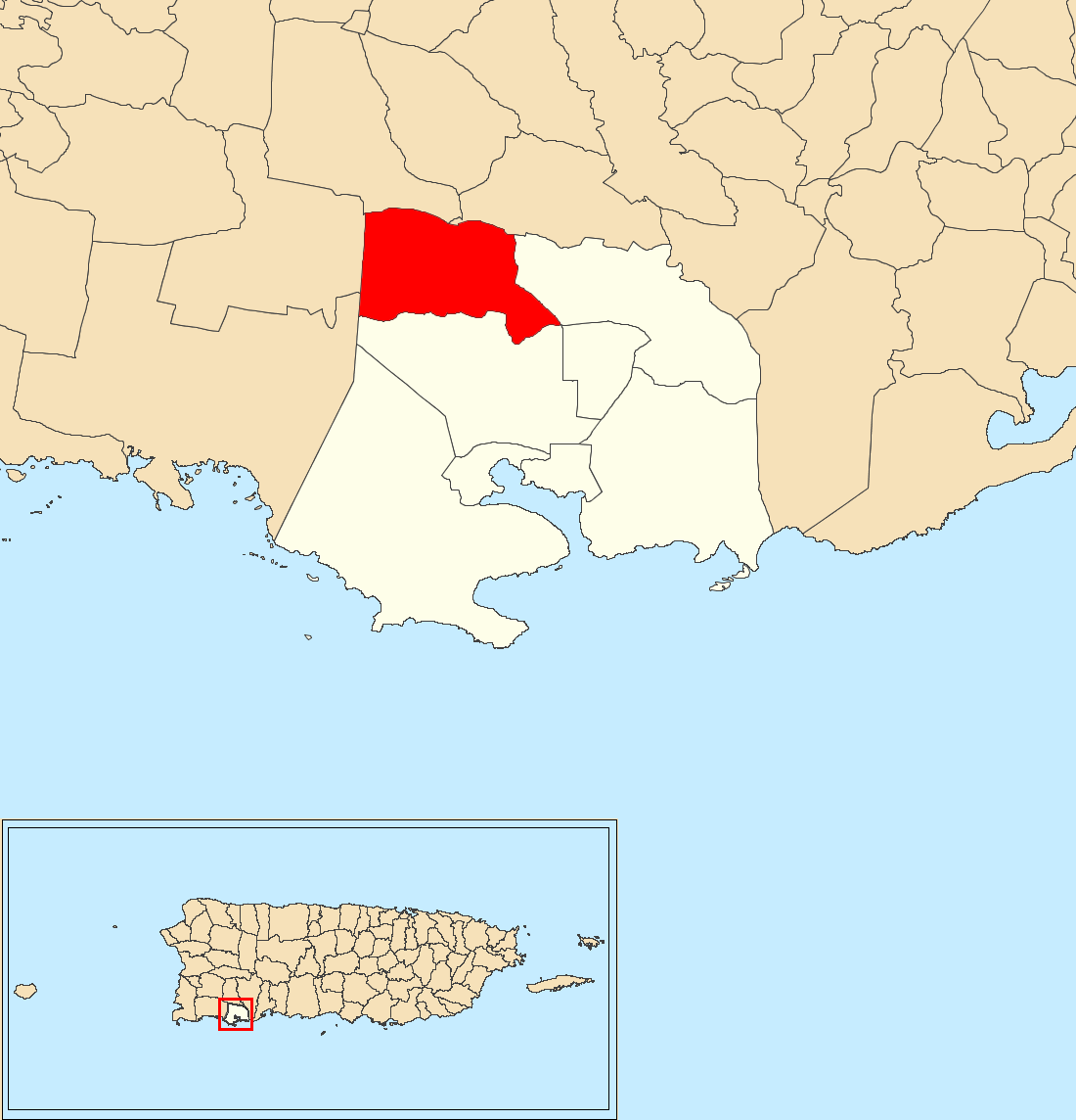 Arena, Guánica, Puerto Rico locator map